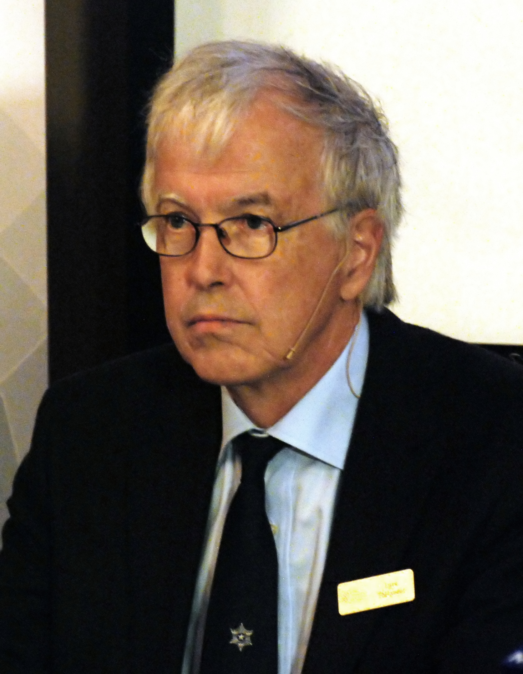 Announcement of the Nobelprize in Chemistry 2010: Lars Thelander